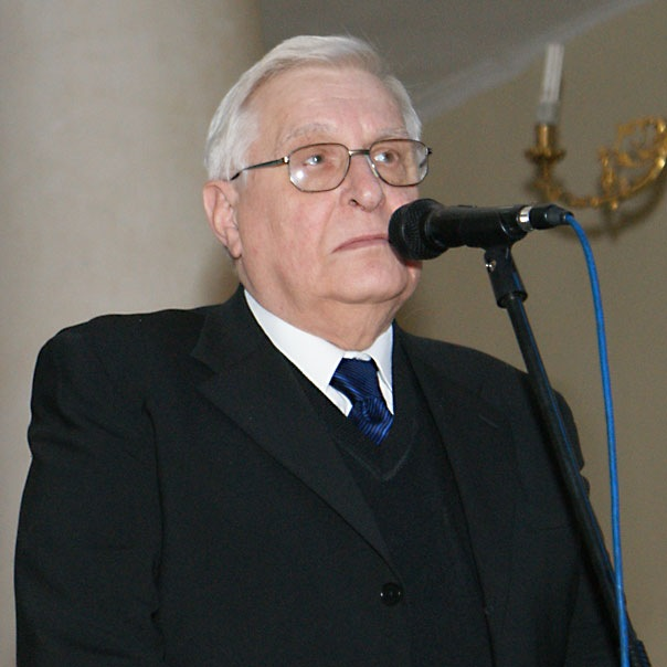 Oleg Basilashvili at the concert for Japan earthquake.